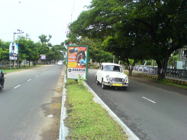 City Roads,Kakinada